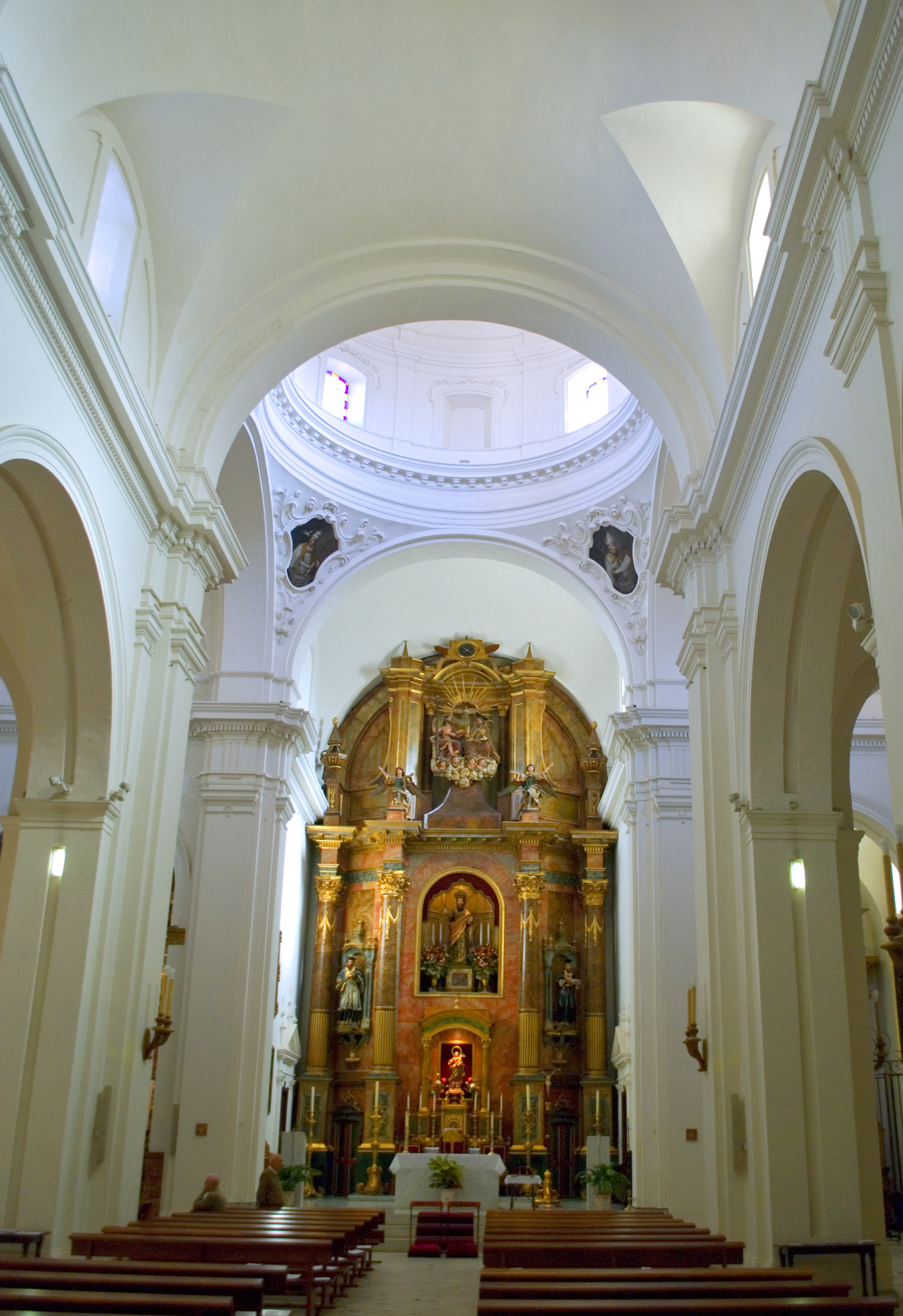 Church of San Bartolomé, Seville